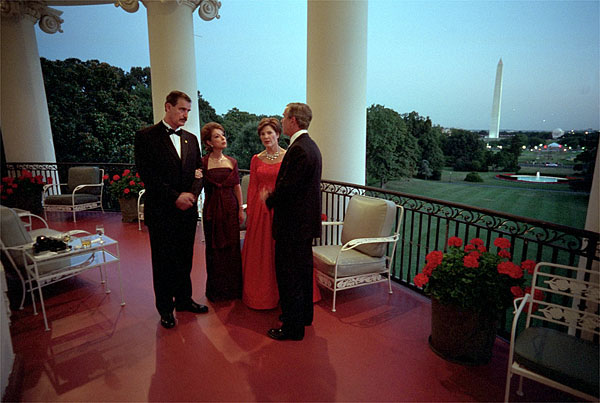 Mexican President Vicente Fox and his wife Martha Sahagun de Fox talk privately with US President Bush and First Lady Laura Bush on the Truman Balcony of the White House